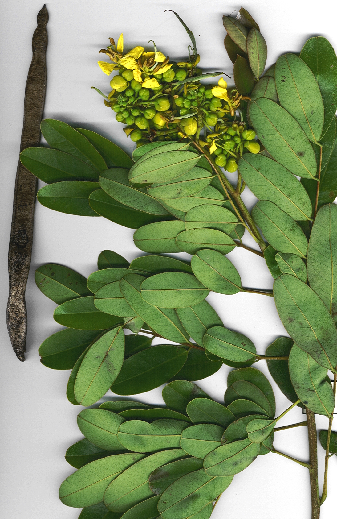 Senna siamea (plant with flowers and pod). Location: Maui, Hamakuapoko